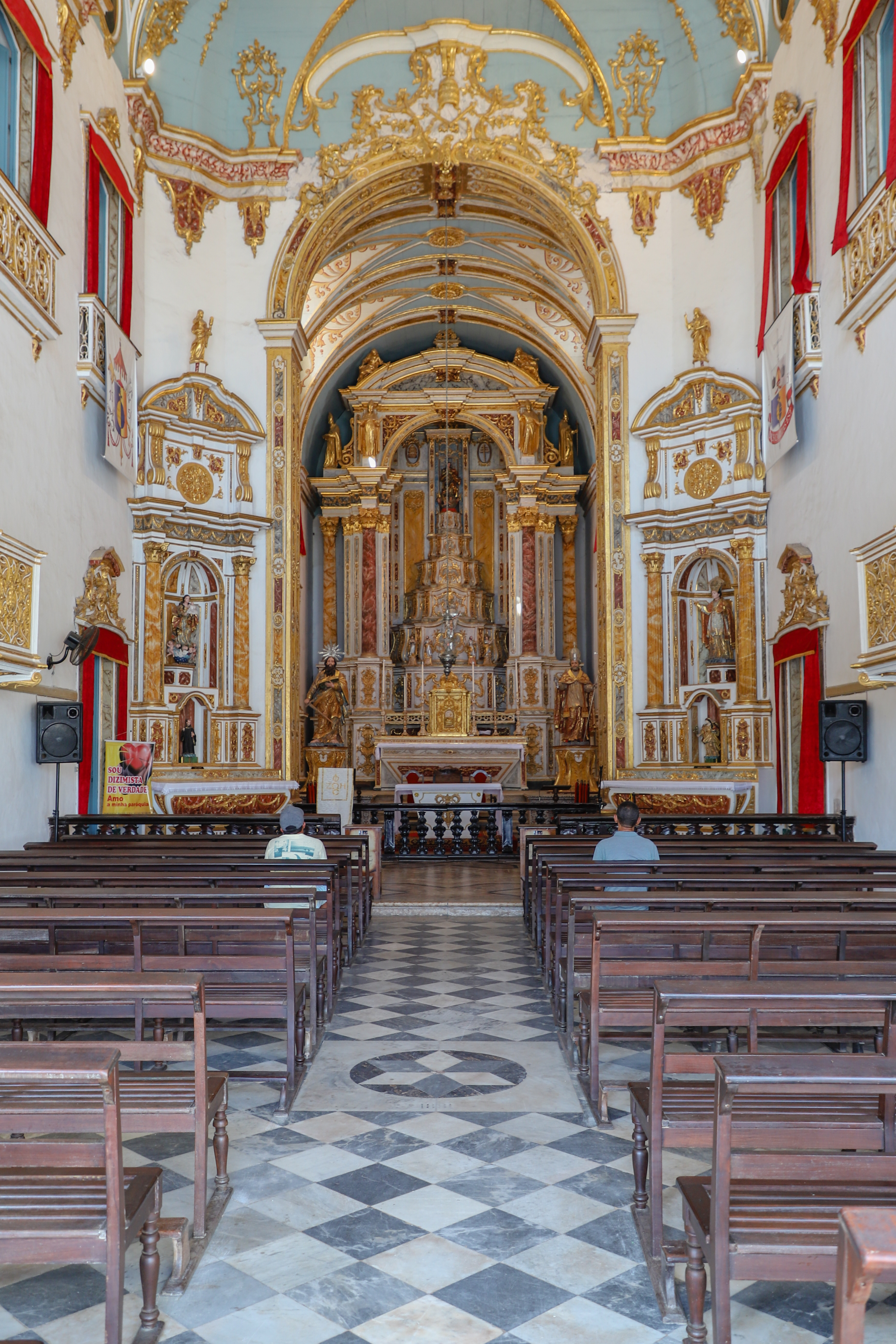 Nave and chancel, Igreja de São Pedro dos Clérigos, Salvador, Bahia, Brazil.